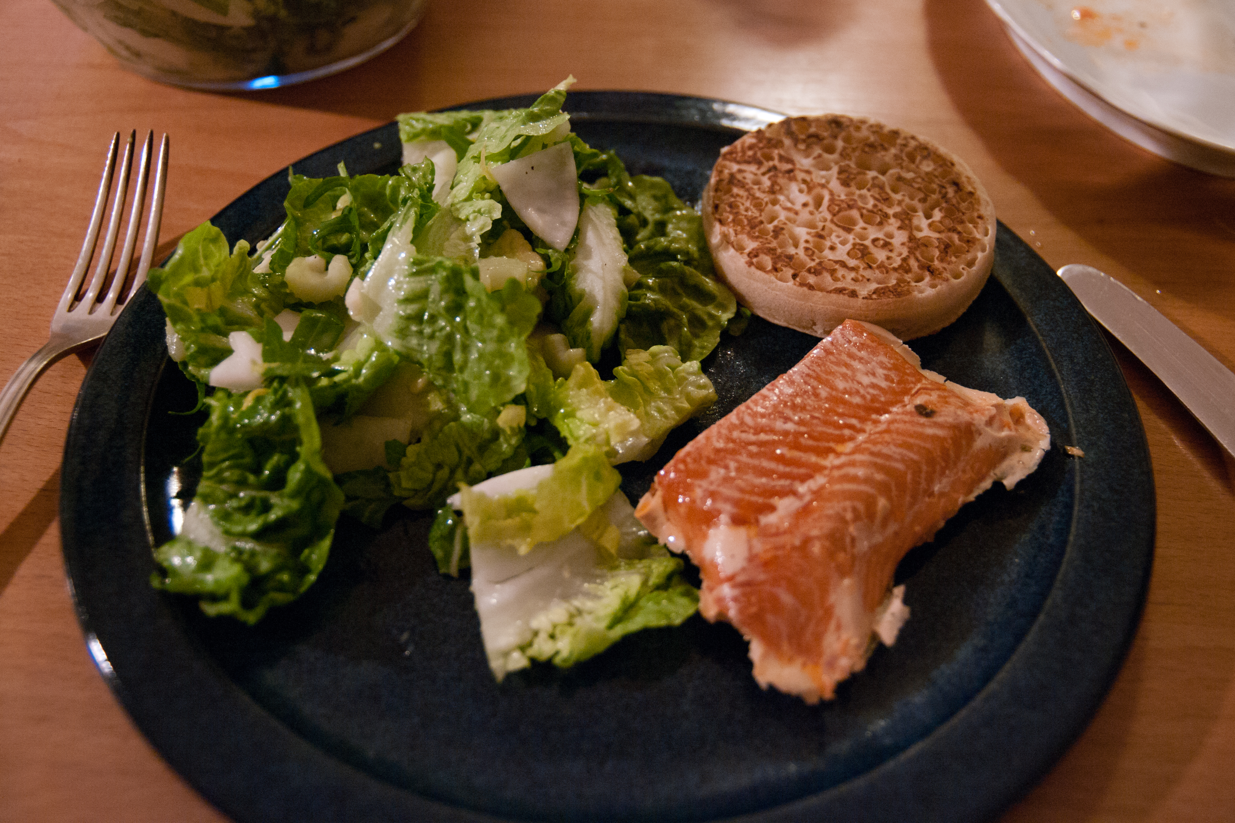 copper river sockeye smoked salmon, salad and crumpet for dinner.